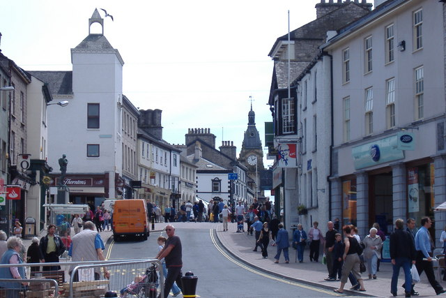 Busy street Lunchers and shoppers mingle in Kendal town centre.